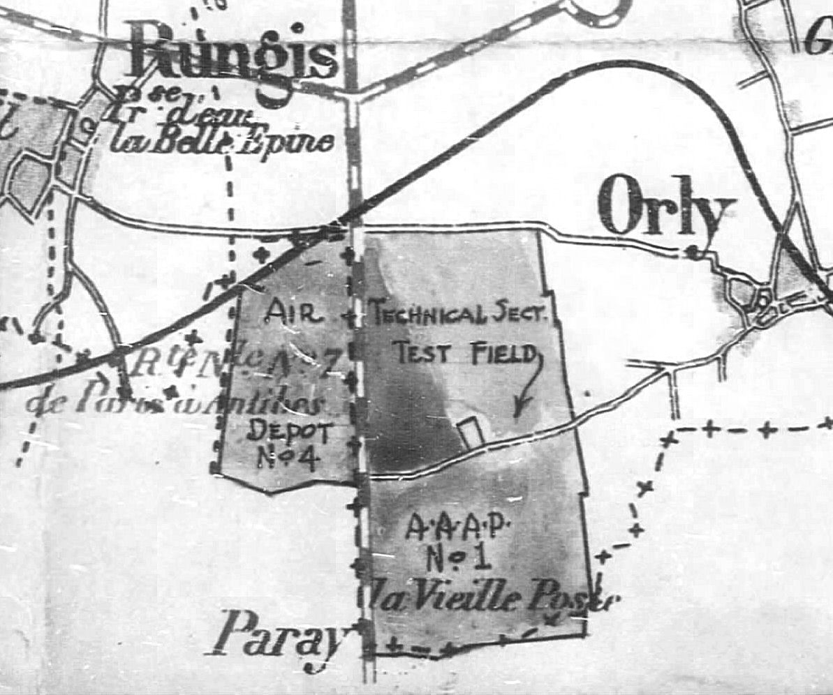 Orly Aerodrome - Airfield Location Maps